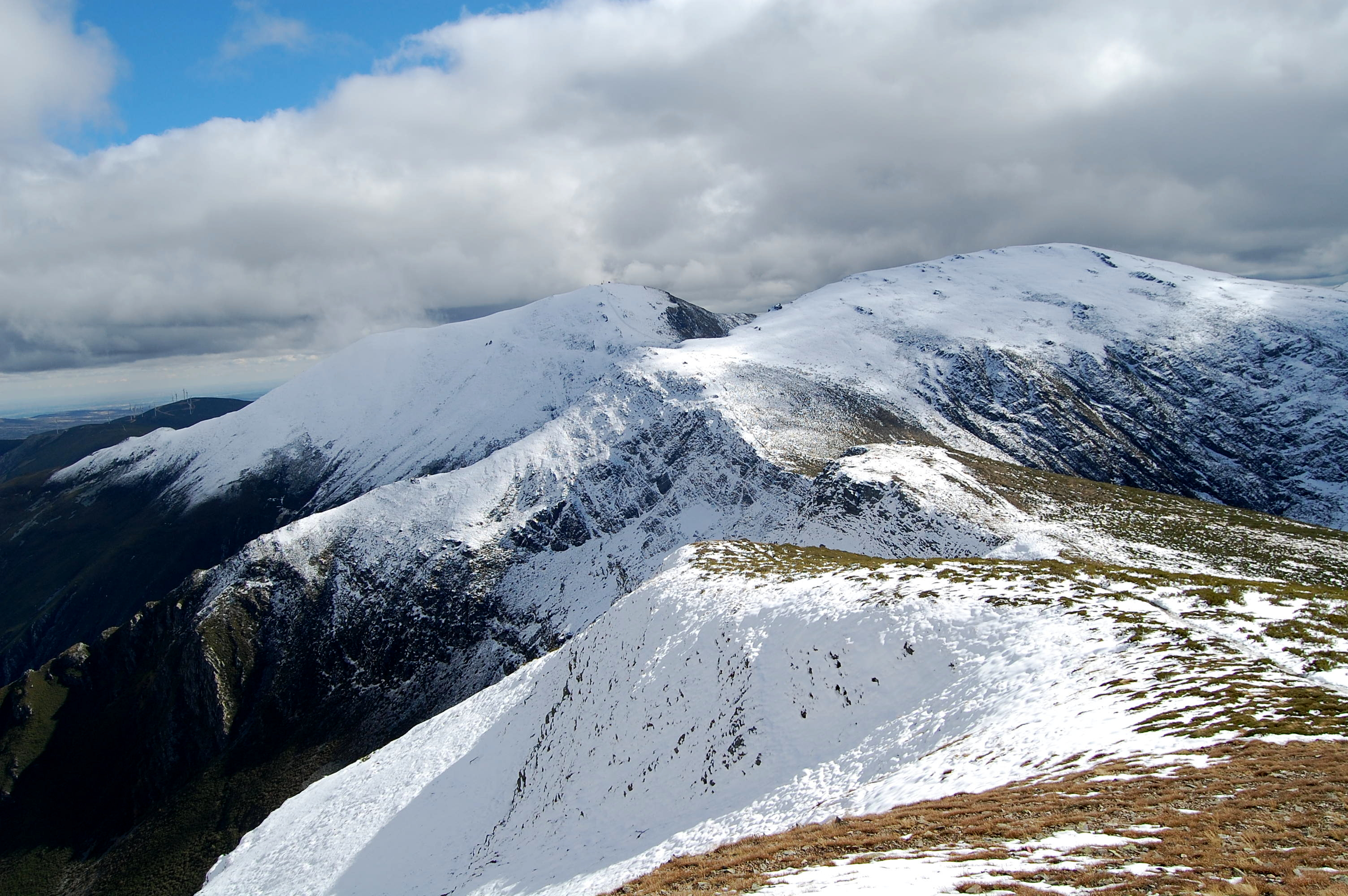 Montes Aquilianos desde el Pico Tuerto This is a photography of a Special Area of Conservation in Spain with the ID: ES4130117. Natura2000 entry, EEA entry